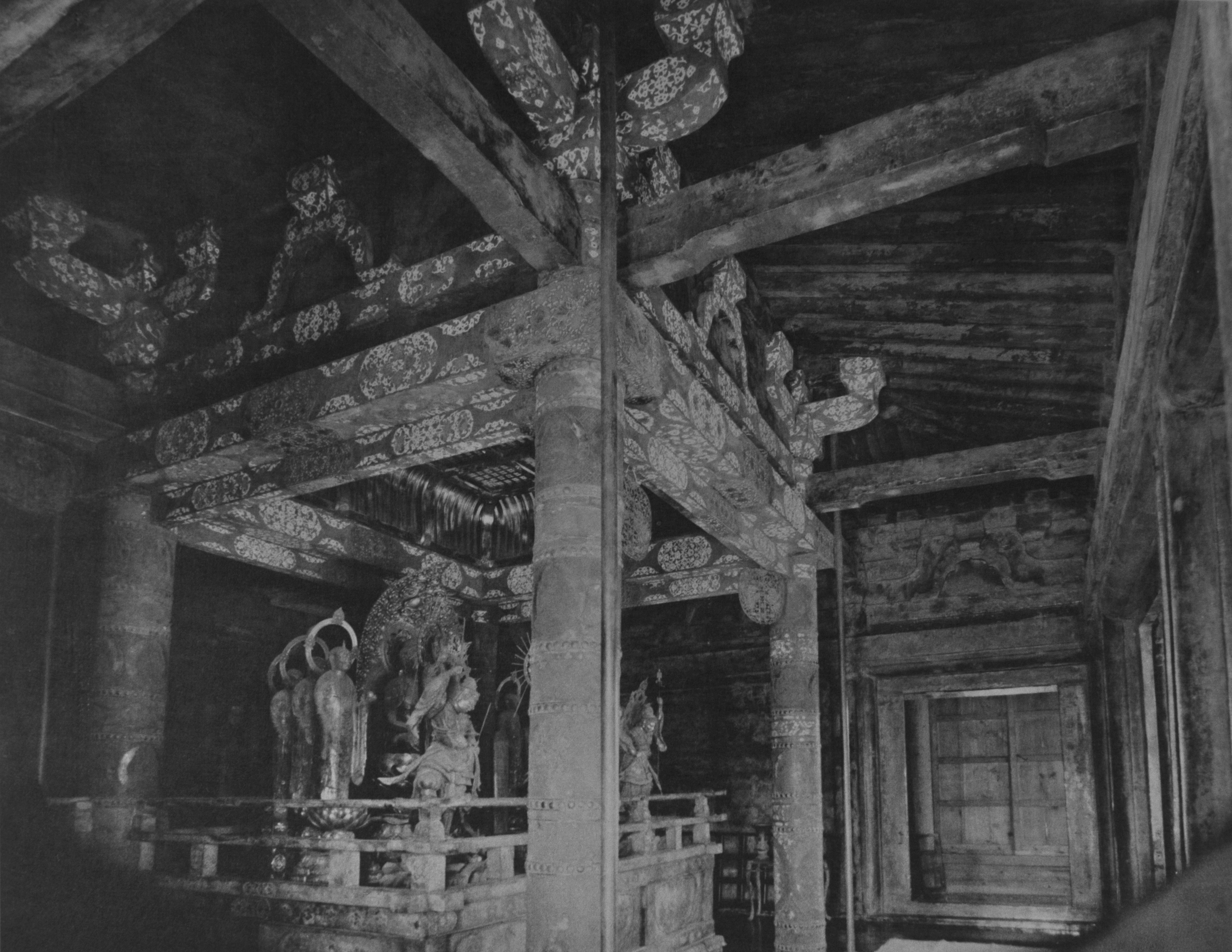 Chusonji, Iwate, Japan